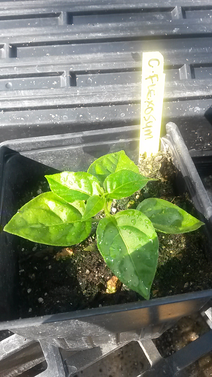 Capsicum flexuosum 6 weeks old, prior to flowering